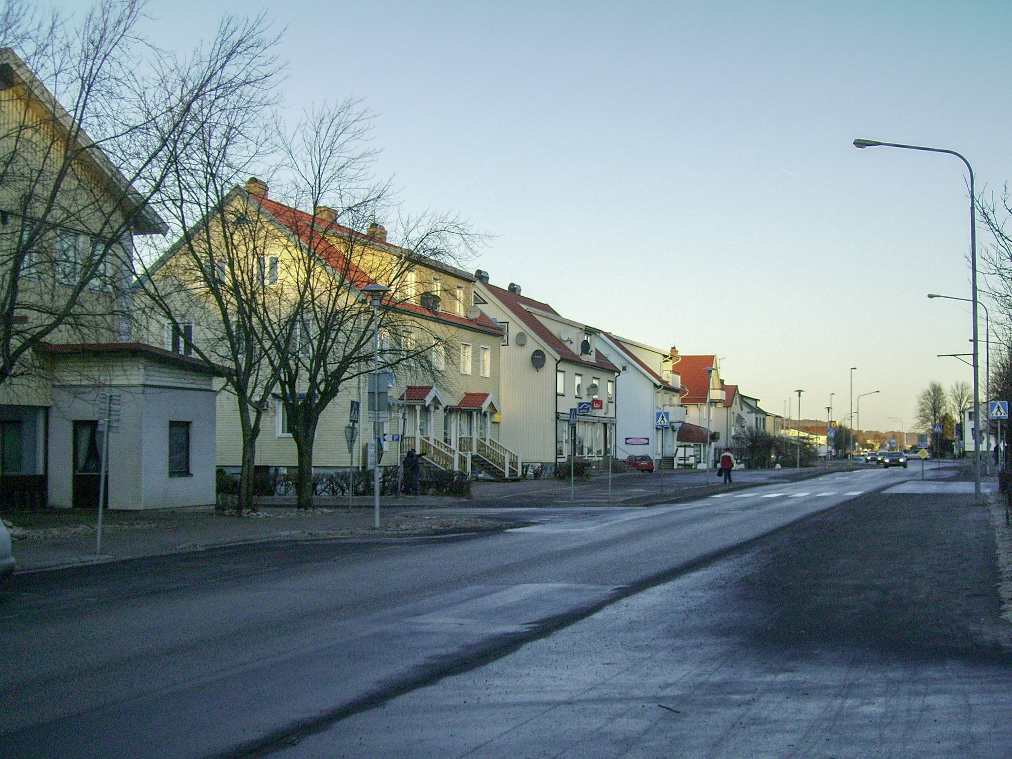 Älvängen in Sweden, january 2009.